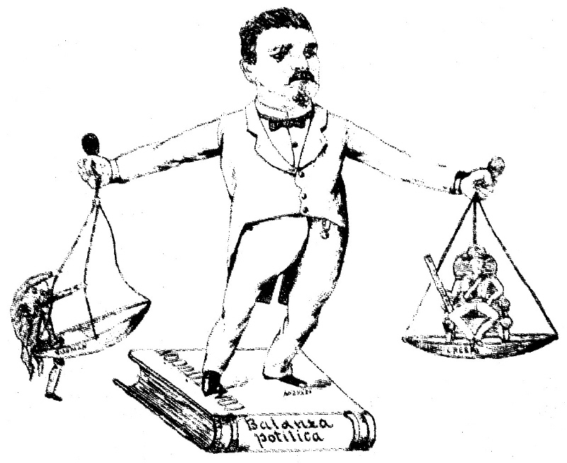 Caricature of Raimundo Andueza Palacio.